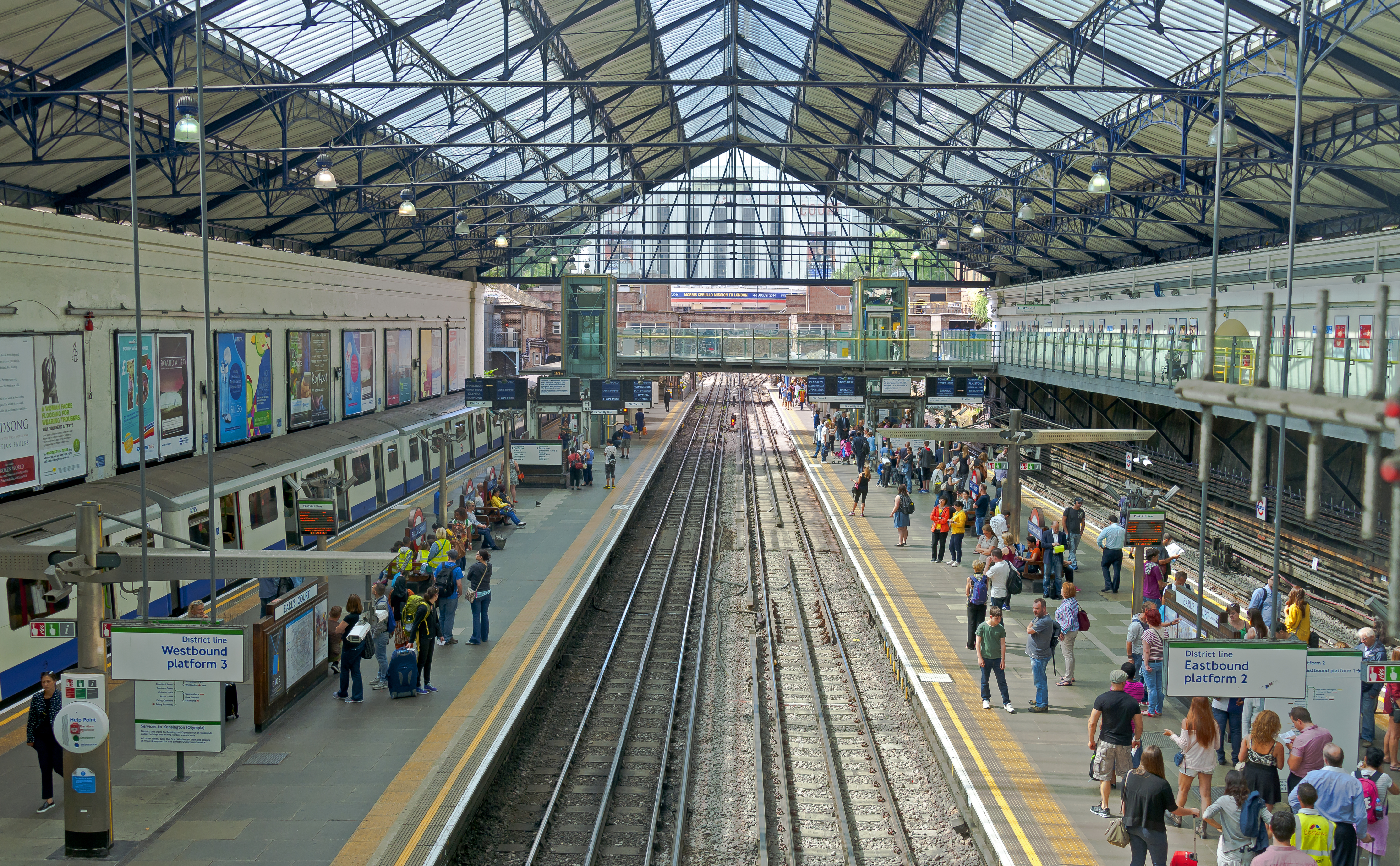 Train shed at the District Line platforms of the Earls Court station on the London Underground.